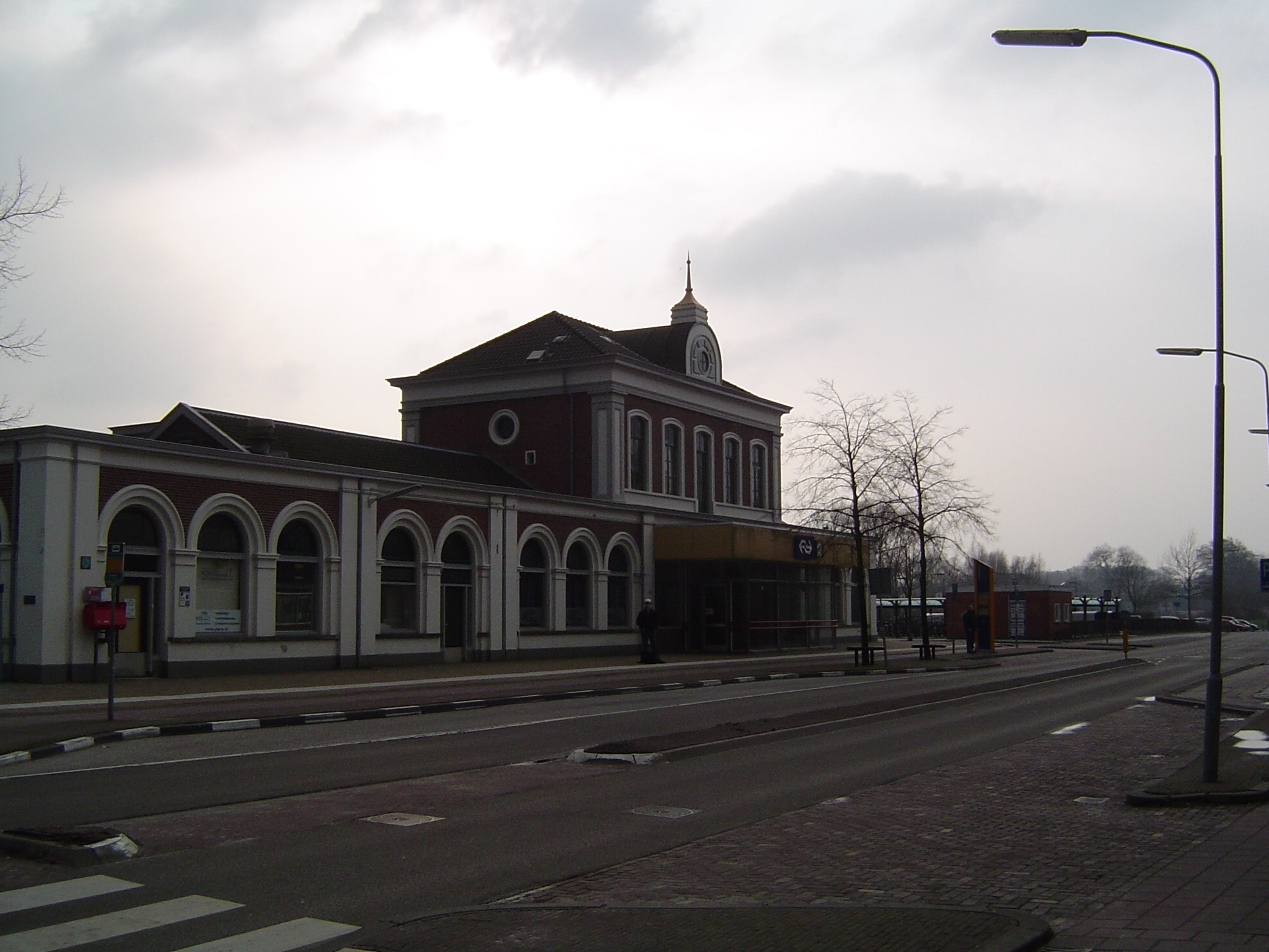 The facade of the railway station in Winschoten in the Netherlands on 26 March 2005.